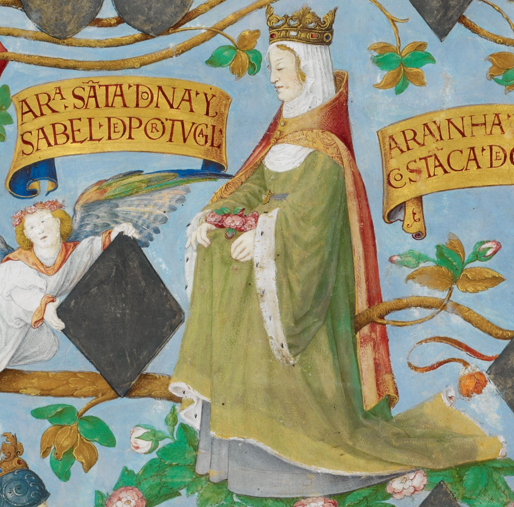 Elizabeth of Aragon, Queen consort of Portugal, in a 16th-century miniature.